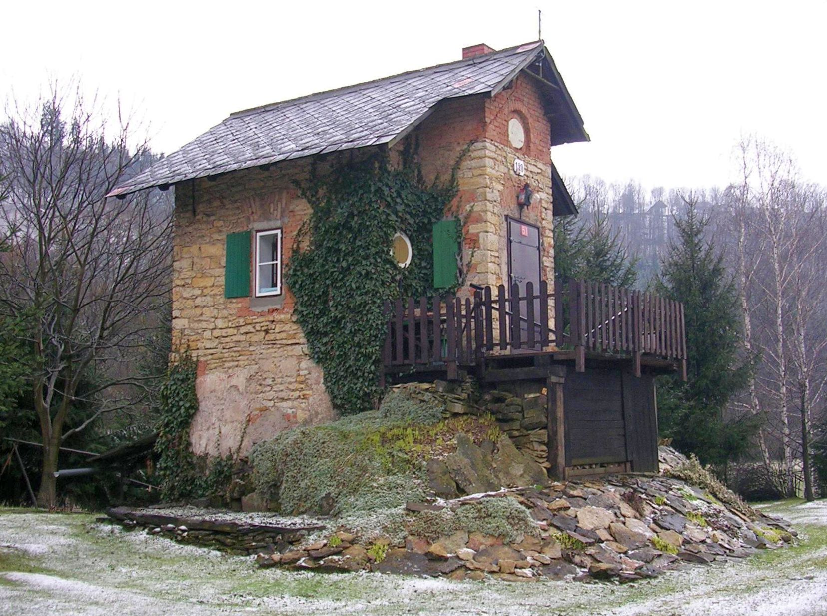 Railway guardhouse near train stop Bezpráví, the Czech Republic. - Google Maps - Google Earth